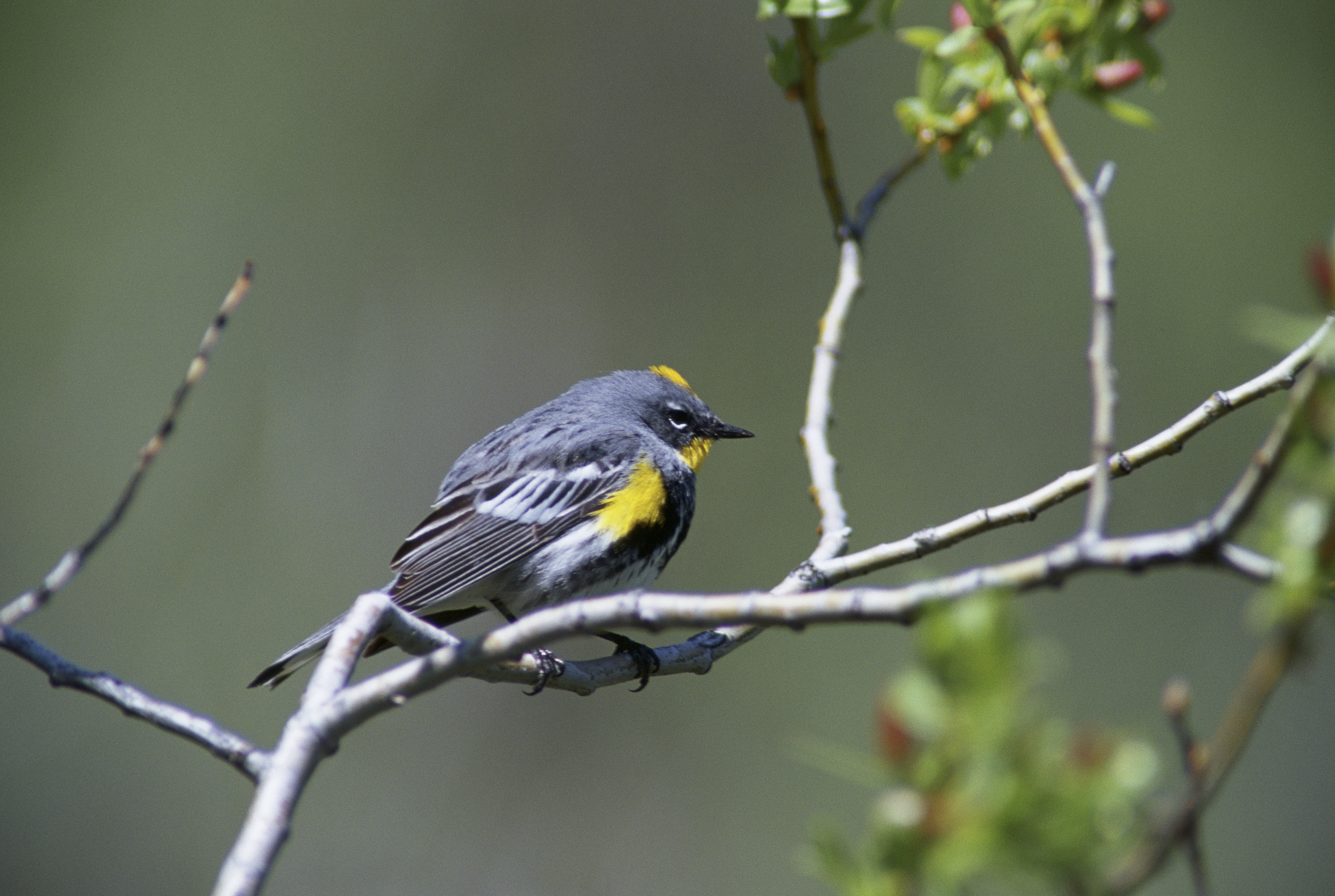 Male Audubon's Warbler (Setophaga auduboni) photographed in the Upper Klamath National Wildlife Refuge